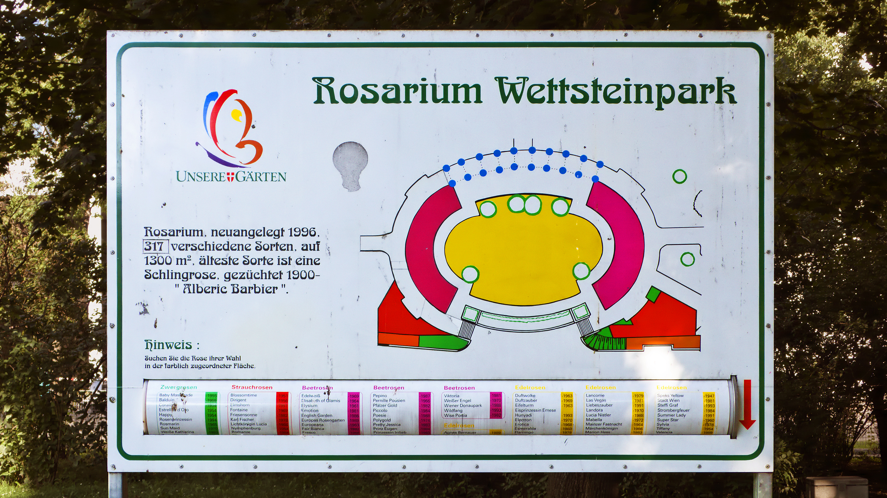 Public park Wettsteinpark in Vienna Leopoldstadt